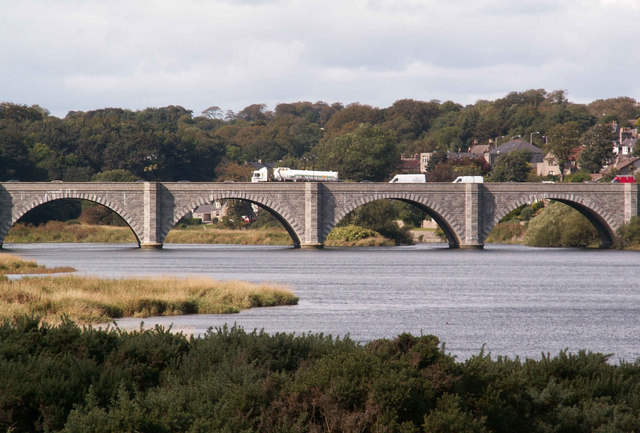 The Bridge of Don. Bridge over the place where the Don enters the sea